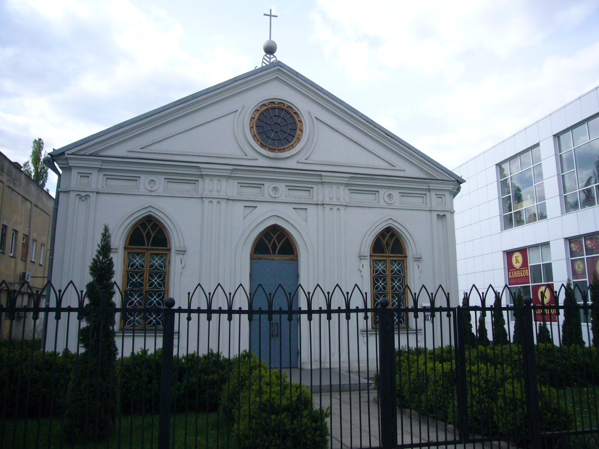 Saint Catherine Evangelical Lutheran Church in Dnipropetrovsk, Ukraine